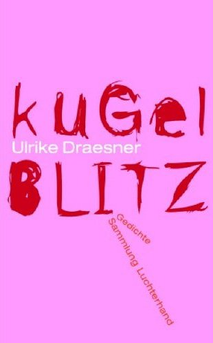 Book cover of "Kugelblitz", Gedichte, 2005 by Ulrike Draesner